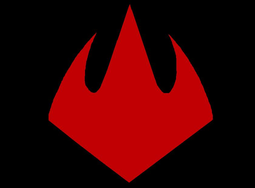 The foot clan logo